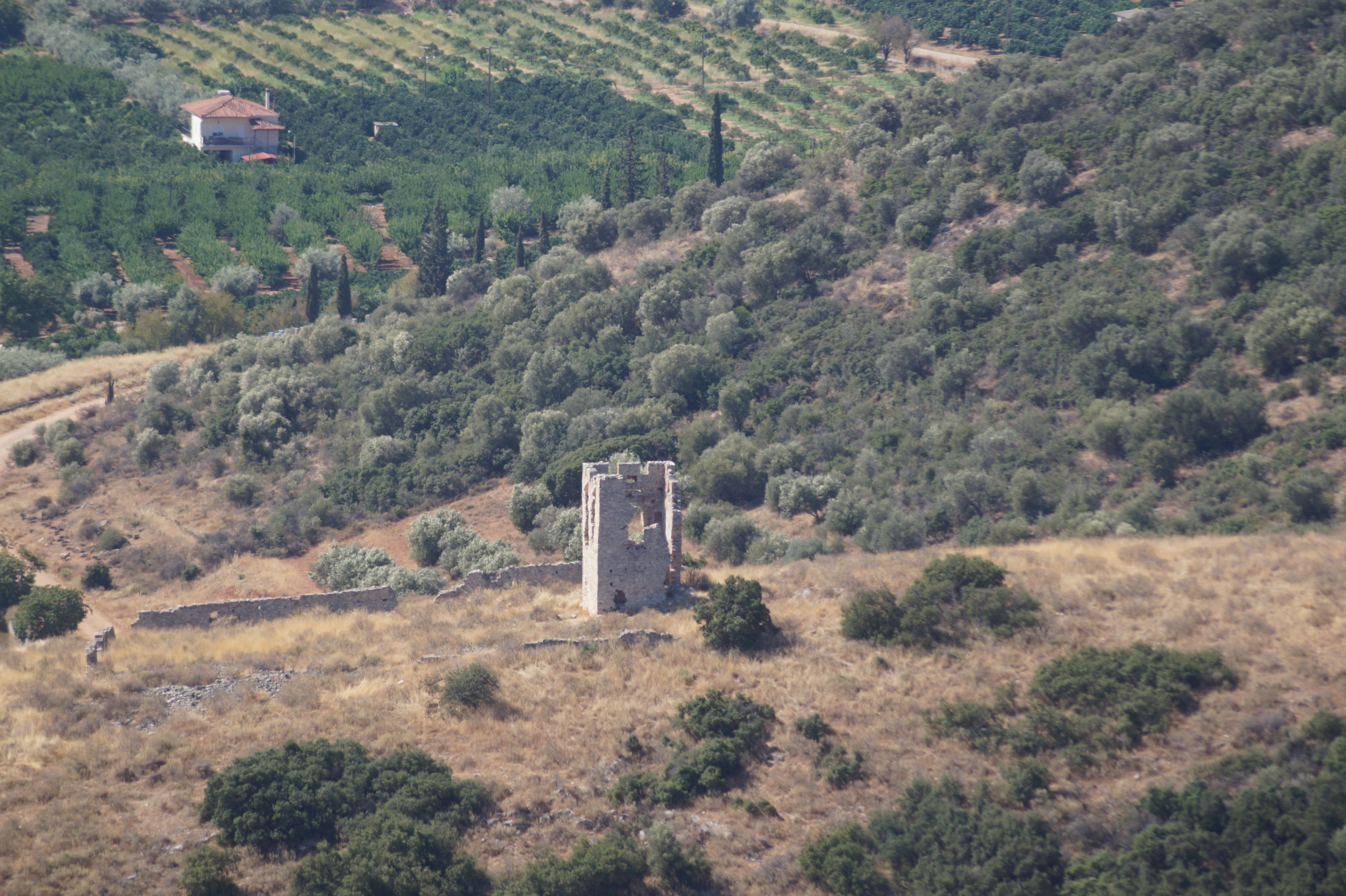 Myloi, Argolida, Greece: View from Mount Pontinos on the Tower of Kiveri.